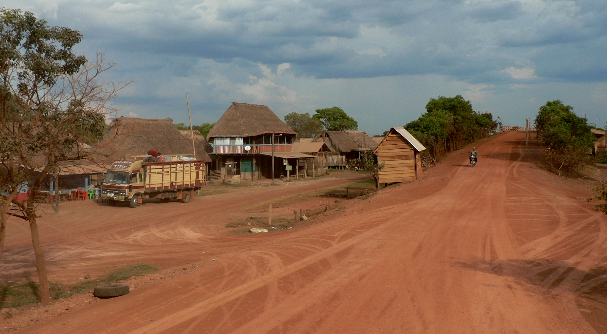 Puerto Teresa del Yata, Beni, Bolivia. View from the village south to the bridge over Río Yata